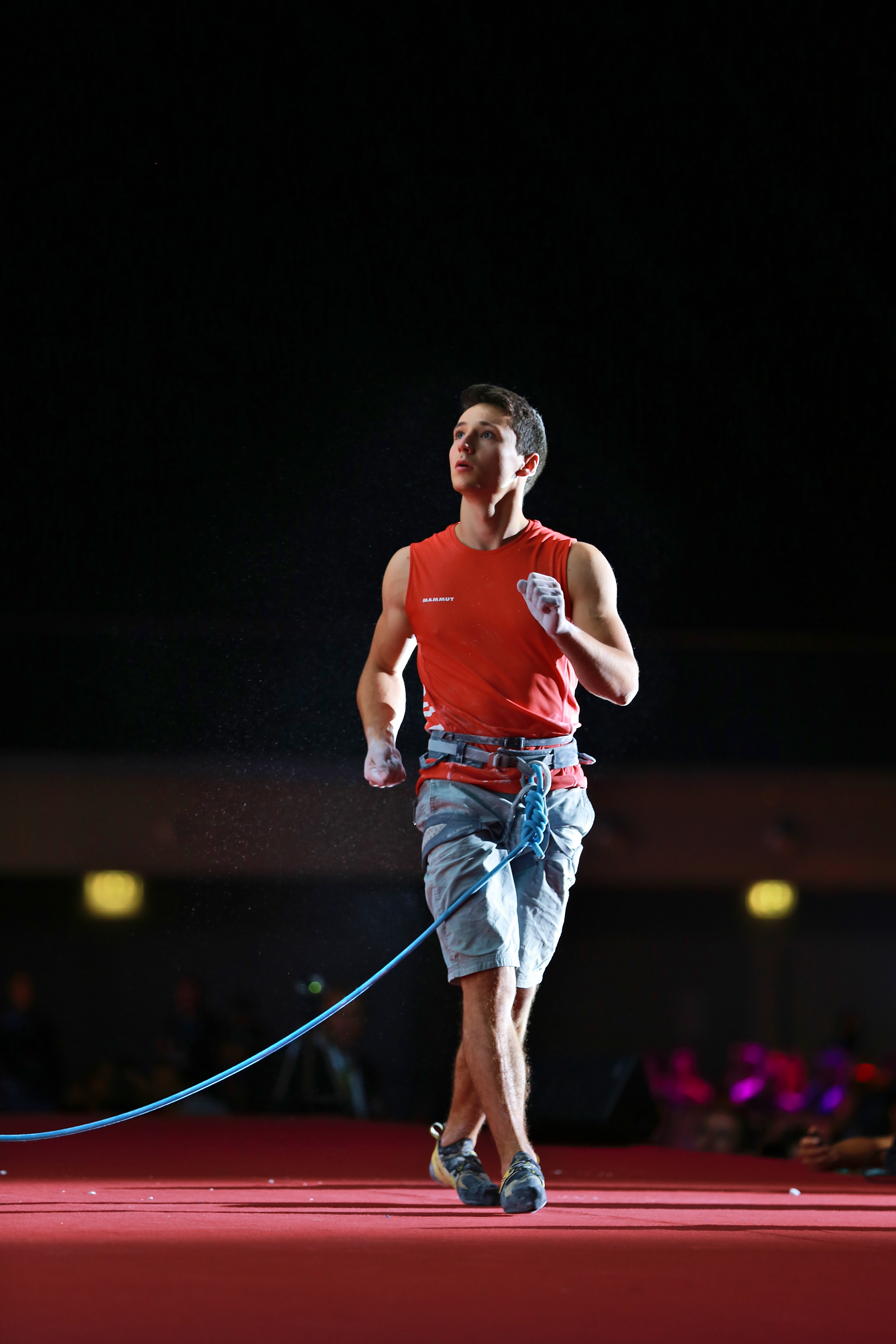 IFSC Climbing World Championships Innsbruck 2018 Final MAN lead 119 LEHMANN Sascha SUI